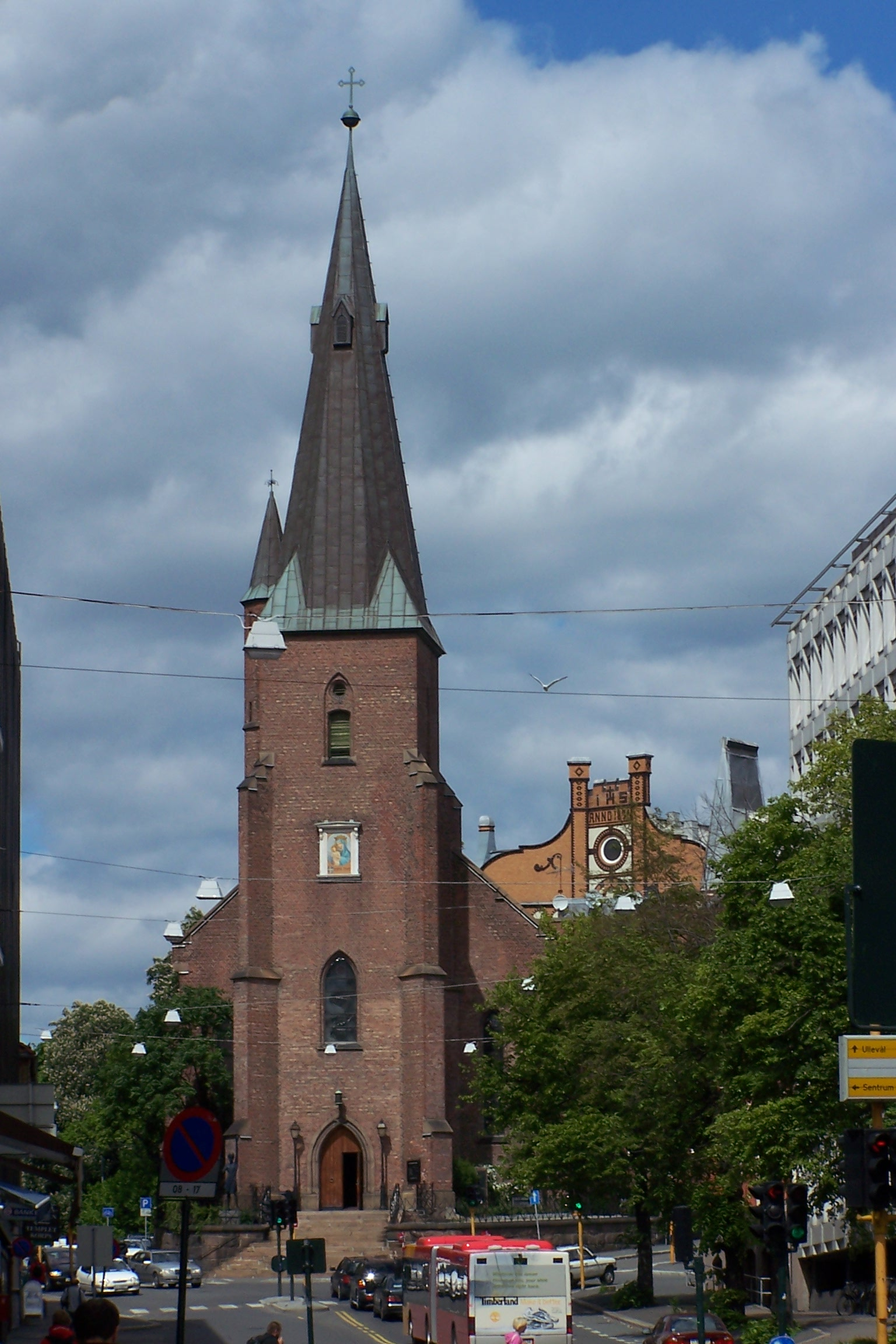 St. Olav Catholic Cathedral in Oslo, Norway. Photo Cnyborg, June 2005